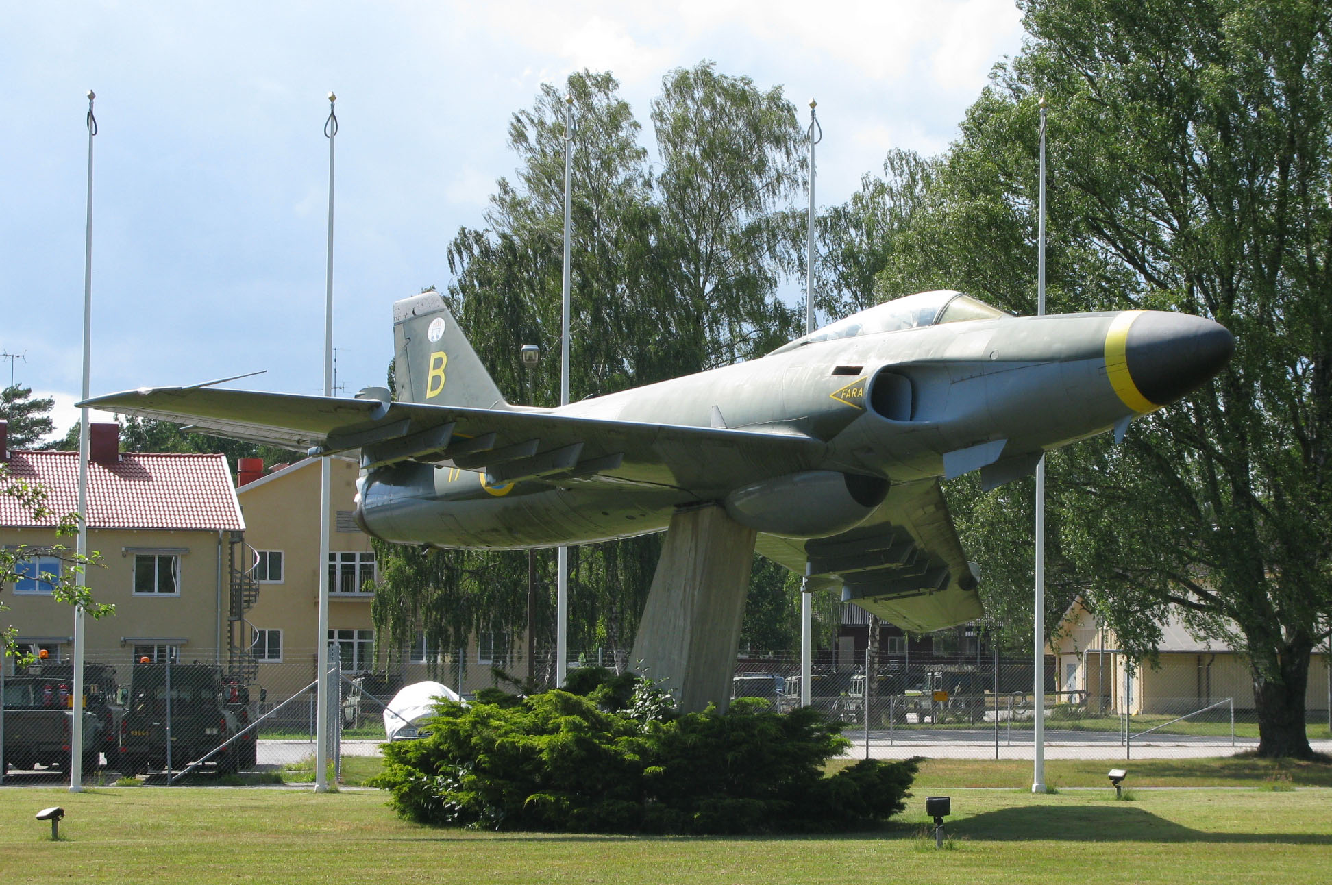 Saab A 32A Lansen at Airforce wing F 17 Kallinge, Sweden.